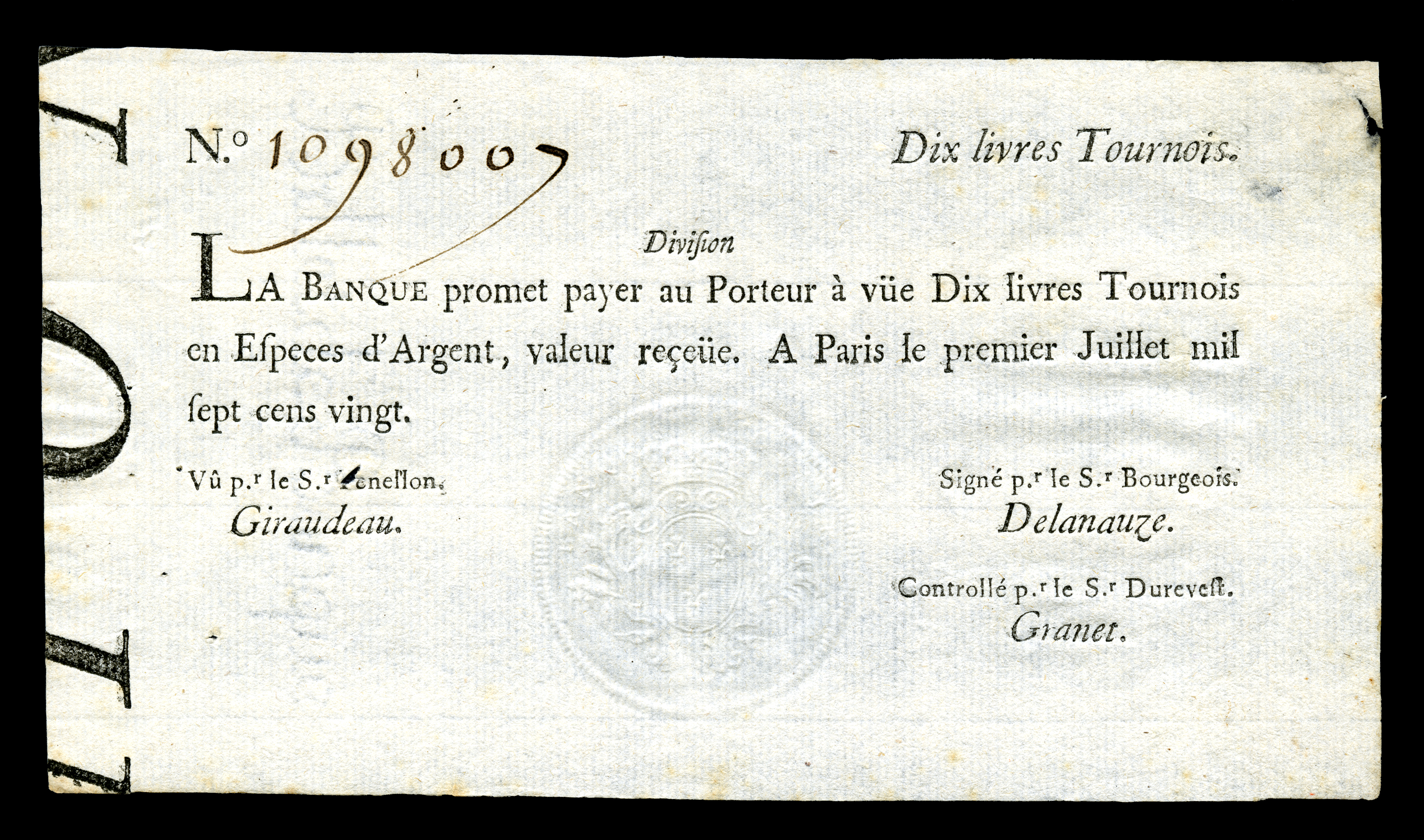 Early French paper currency issued by La Banque Royale - 10 livres Tournois, 1720 Second Issue (Pick ref# A20a). See also Les proto-billets.